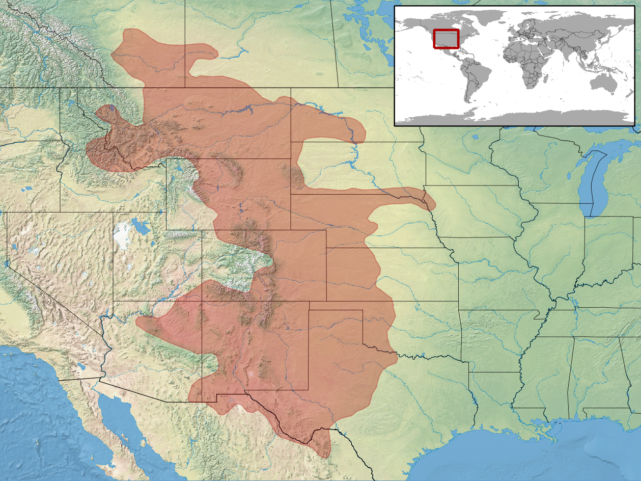 Geographic distribution of Crotalus viridis — Prairie rattlesnake, Western rattlesnake. Endemic to North America, native in Canada, Mexico, and the United States. As defined by Crother et al. (2003). The map includes only the ranges of subspecies viridis and nuntius of traditionally defined Crotalus viridis, without Crotalus oreganus.